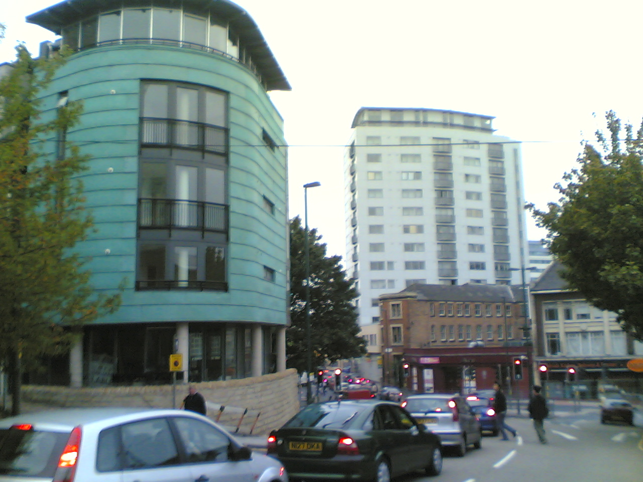 New Developments near Nottingham Arena